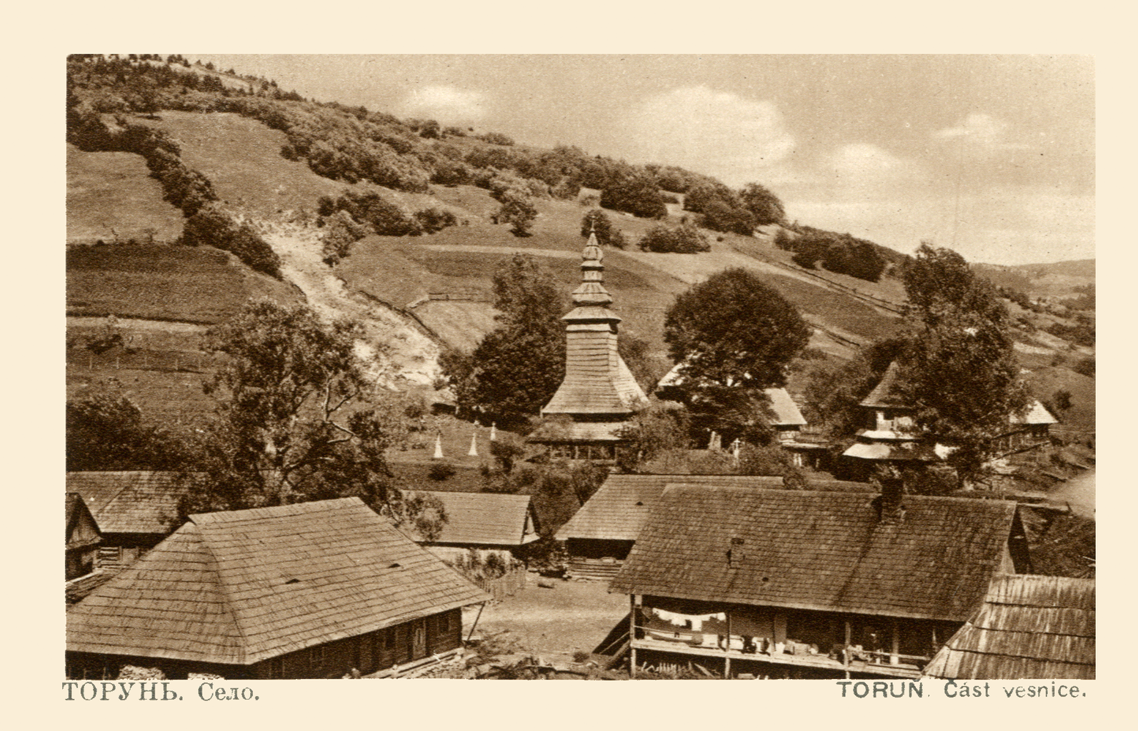 This image is part of an album probably published in about 1920 that contains 20 photographs of scenes in Carpathian Ruthenia, a mountainous region, most of which was part of the Austria-Hungary before World War I, but which became part of the new Czechoslovak state in 1919. Today the largest portion of it forms Zakarpattia Oblast in western Ukraine, with smaller parts in Slovakia and Poland. This village scene shows the town of Torun` in Mizhhiria District, in eastern Carpathian Ruthenia. Both houses and churches have steeply pitched roofs with an overhang to protect the walls from winter weather in the mountains. Churches; Houses; Villages; Wooden buildings